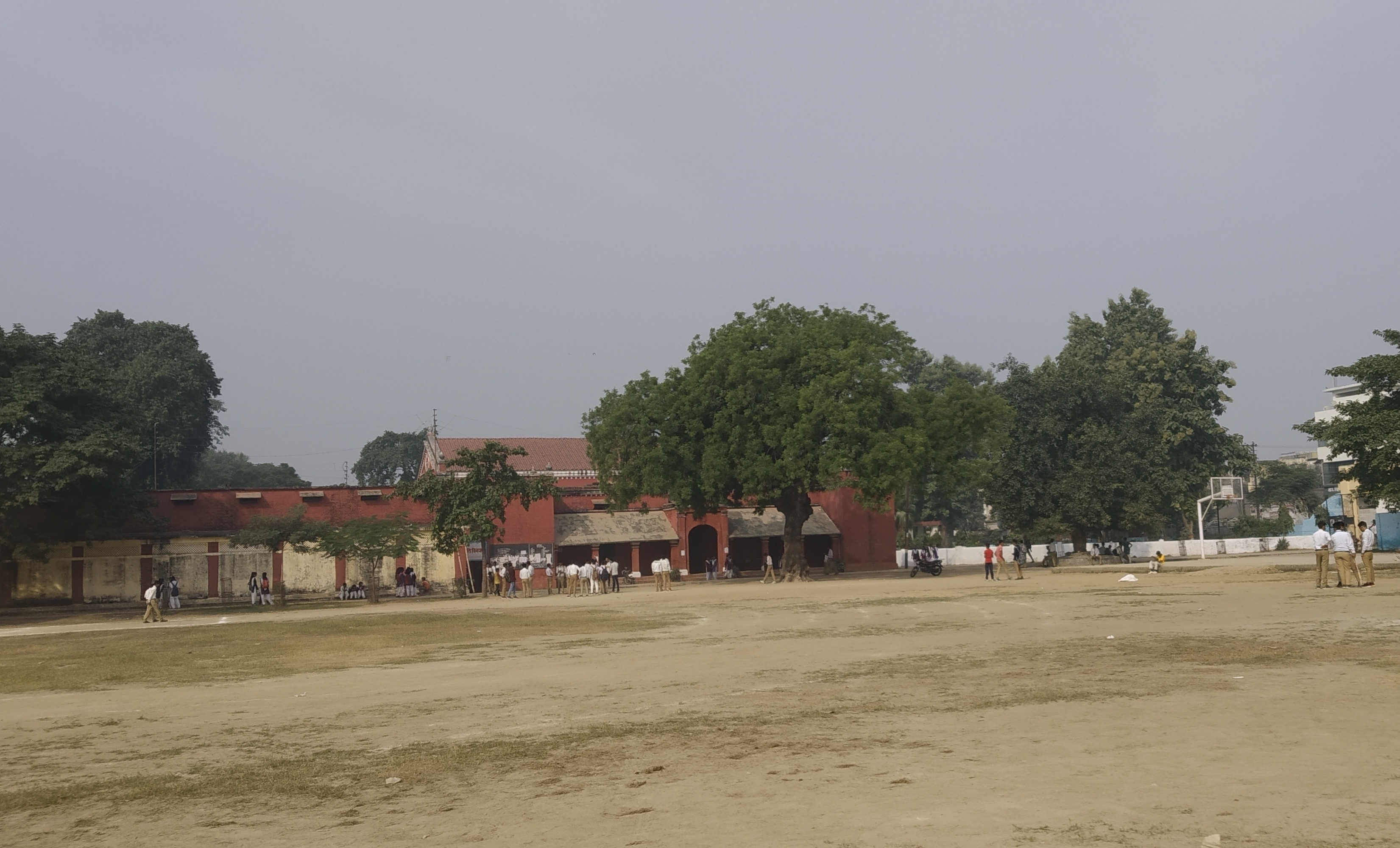 Gic Deoria